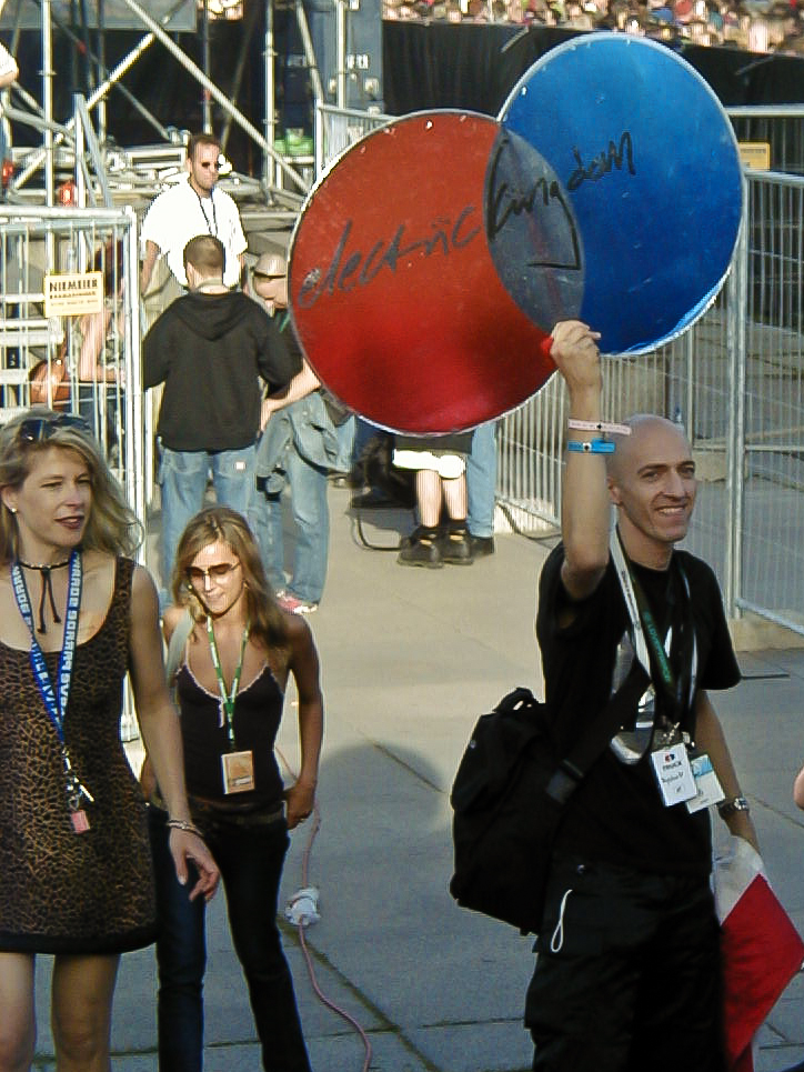 Loveparade 2001, Berlin, Germany